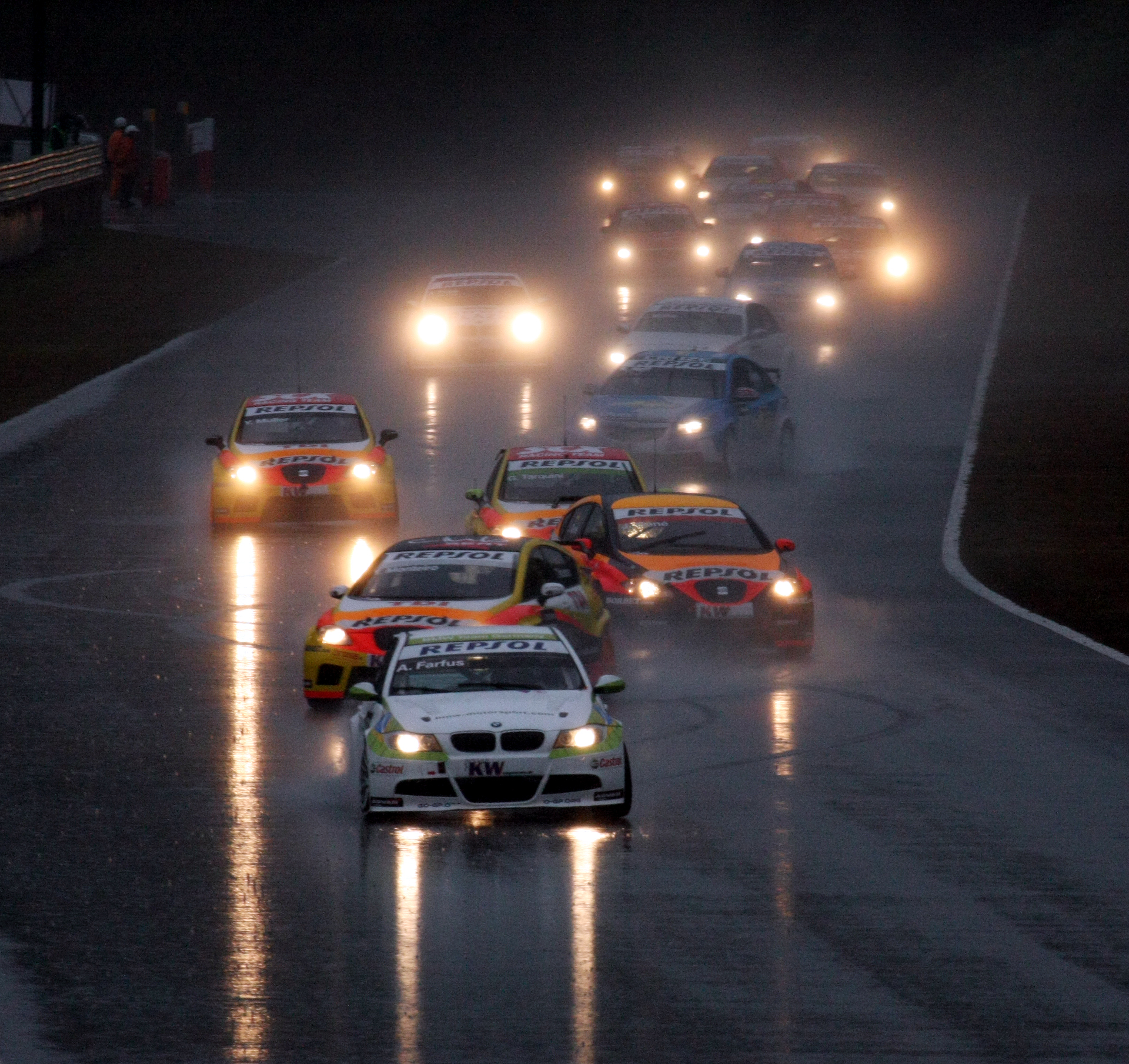 World Touring Car Championship 2009 Race of Japan: formation lap of Race 2.